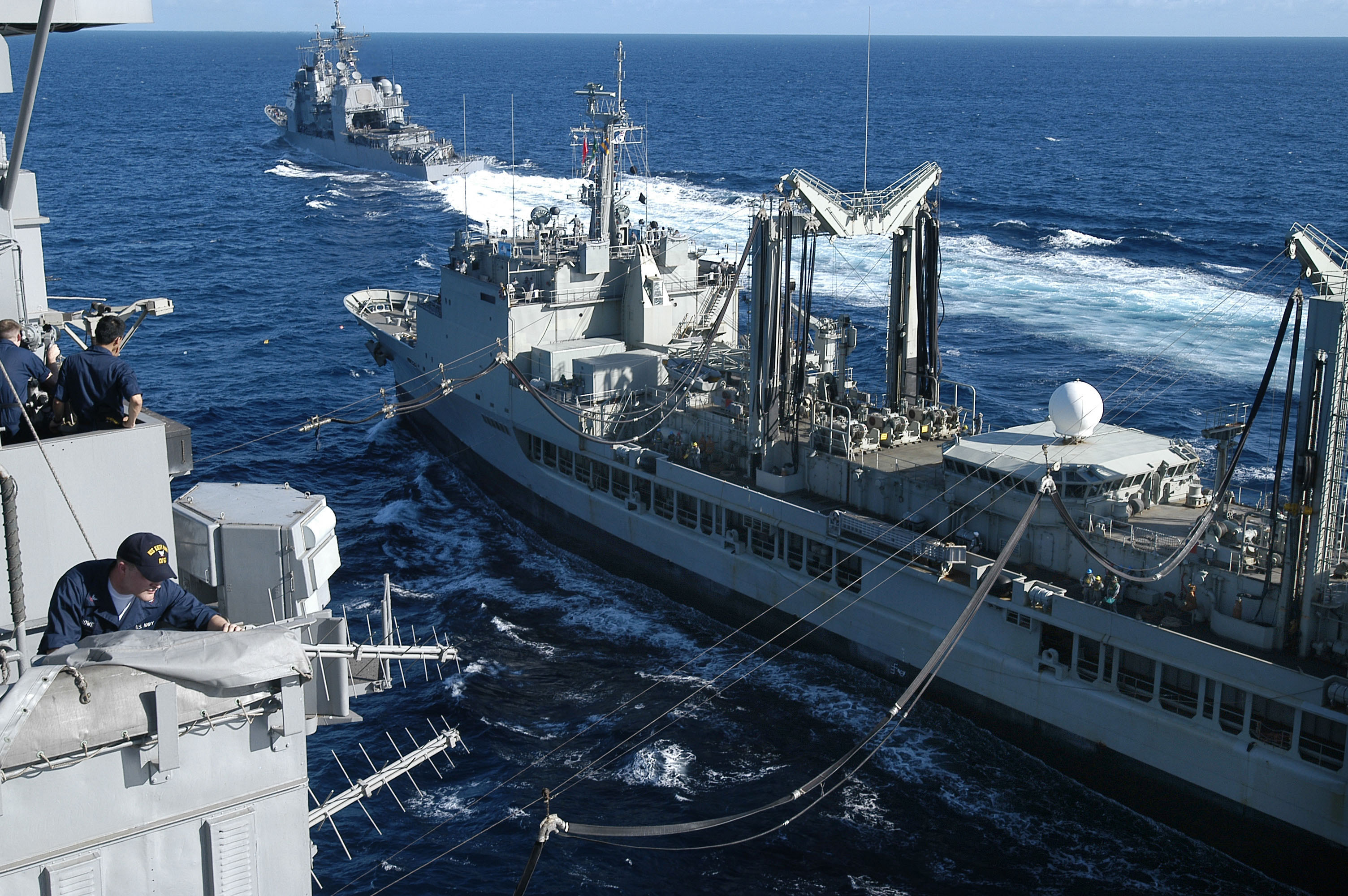 Coral Sea (June 14, 2005) – Sailors aboard USS Kitty Hawk (CV 63) observe a replenishment at sea with Royal Australian Navy auxiliary oiler replenishment ship HMAS Success (AOR 304) as USS Cowpens (CG 63) sails ahead. Kitty Hawk is currently operating in the Coral Sea off the coast of Australia's Queensland region as part of Exercise Talisman Sabre 2005. Talisman Sabre is an exercise jointly sponsored by the U.S. Pacific Command and Australian Defense Force Joint Operations Command, and designed to train the U.S. Seventh Fleet commander's staff and Australian Joint Operations staff as a designated Combined Task Force (CTF) headquarters. The exercise focuses on crisis action planning and execution of contingency response operations. U.S. Pacific Command units and Australian forces will conduct land, sea and air training throughout the training area. More than 11,000 U.S. and 6,000 Australian personnel will participate. U.S. Navy photo by Photographer's Mate Airman Dylan Butler (RELEASED)